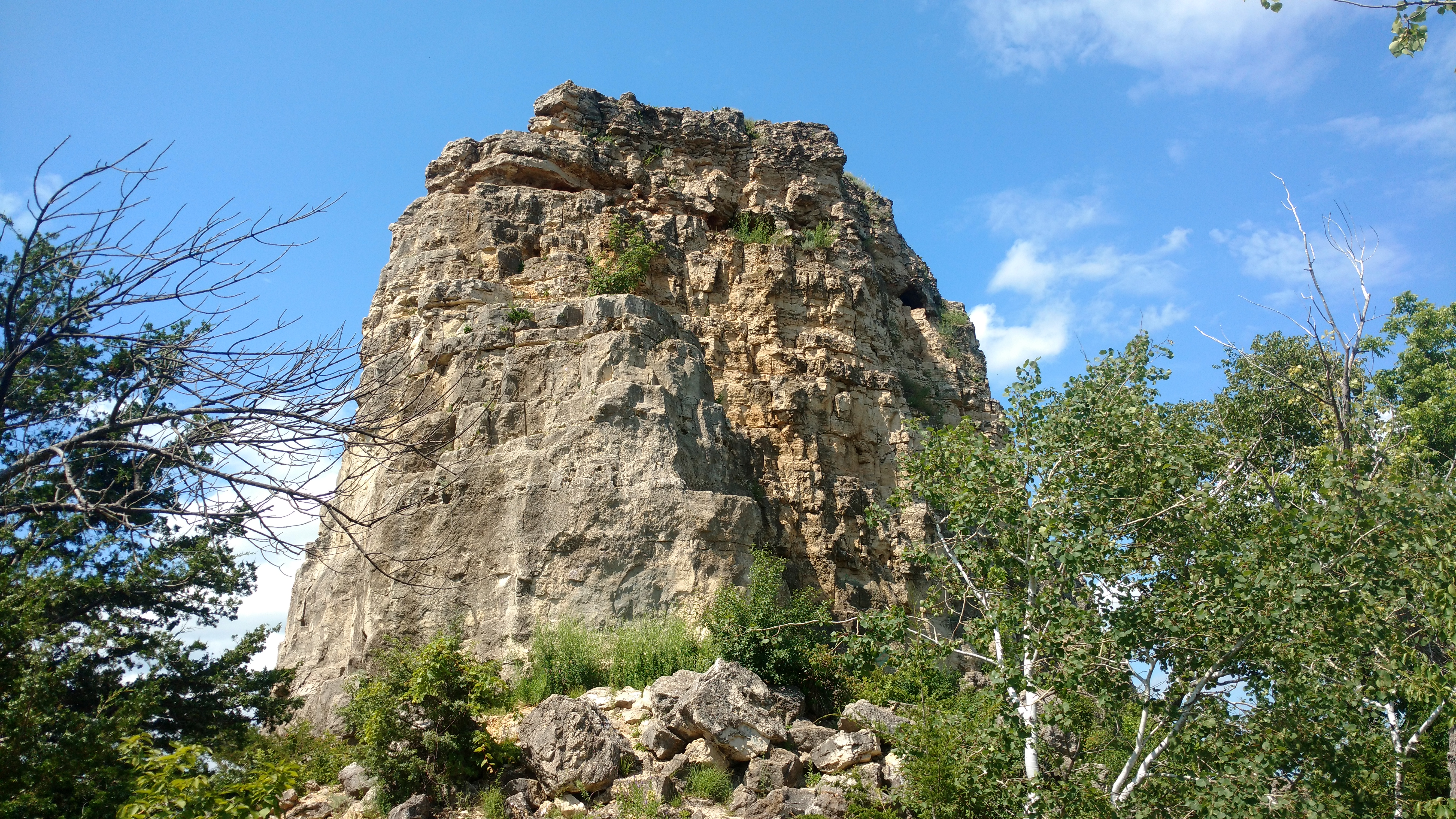 Springtime view of the pinnacle atop the Sugar Loaf in Winona, Minnesota.